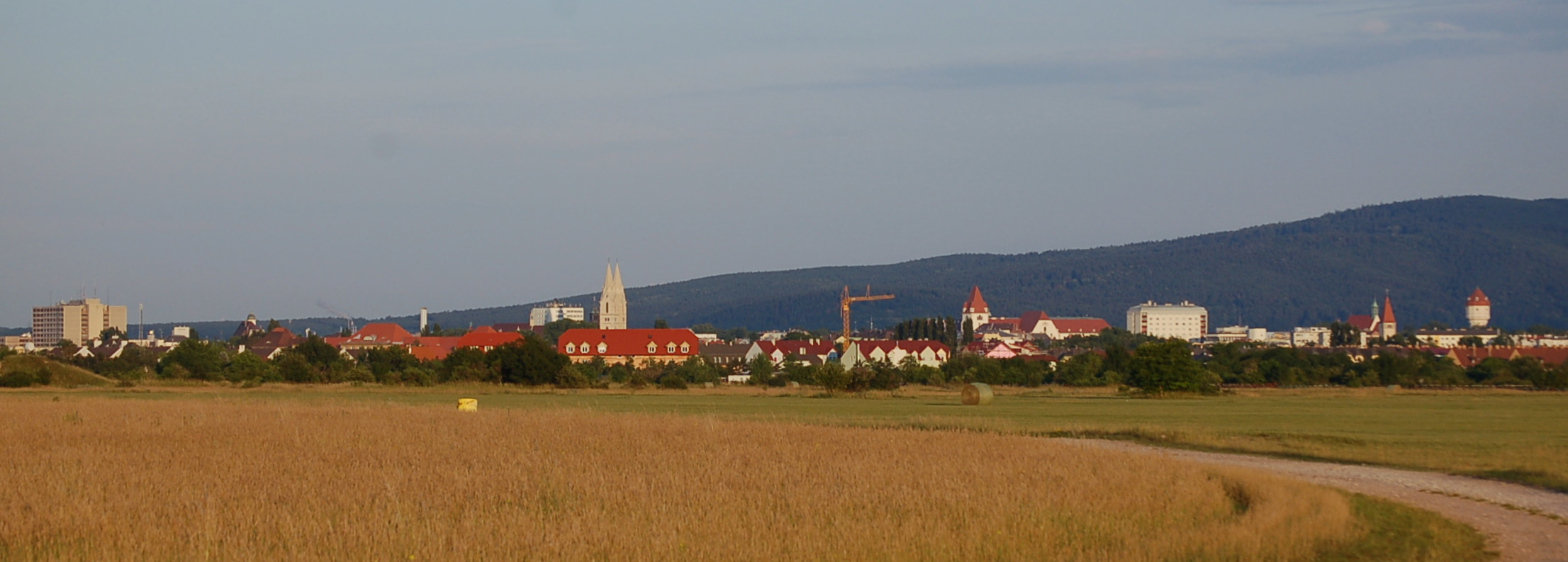 View of Wiener Neustadt from the west, showing near the left edge the hospital, left of centre the spires of the Cathedral, right of centre roof and tower of the Castle (home of the Military Academy) and near the right edge the church of the Friars Capuchins, the spire of the Lutheran church and the water tower.